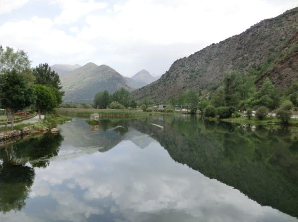 View of la Torrassa reservoir, of the river Noguera Pallaresa, near la Guingueta d'Àneu (Pallars Sobirà, Catalonia).